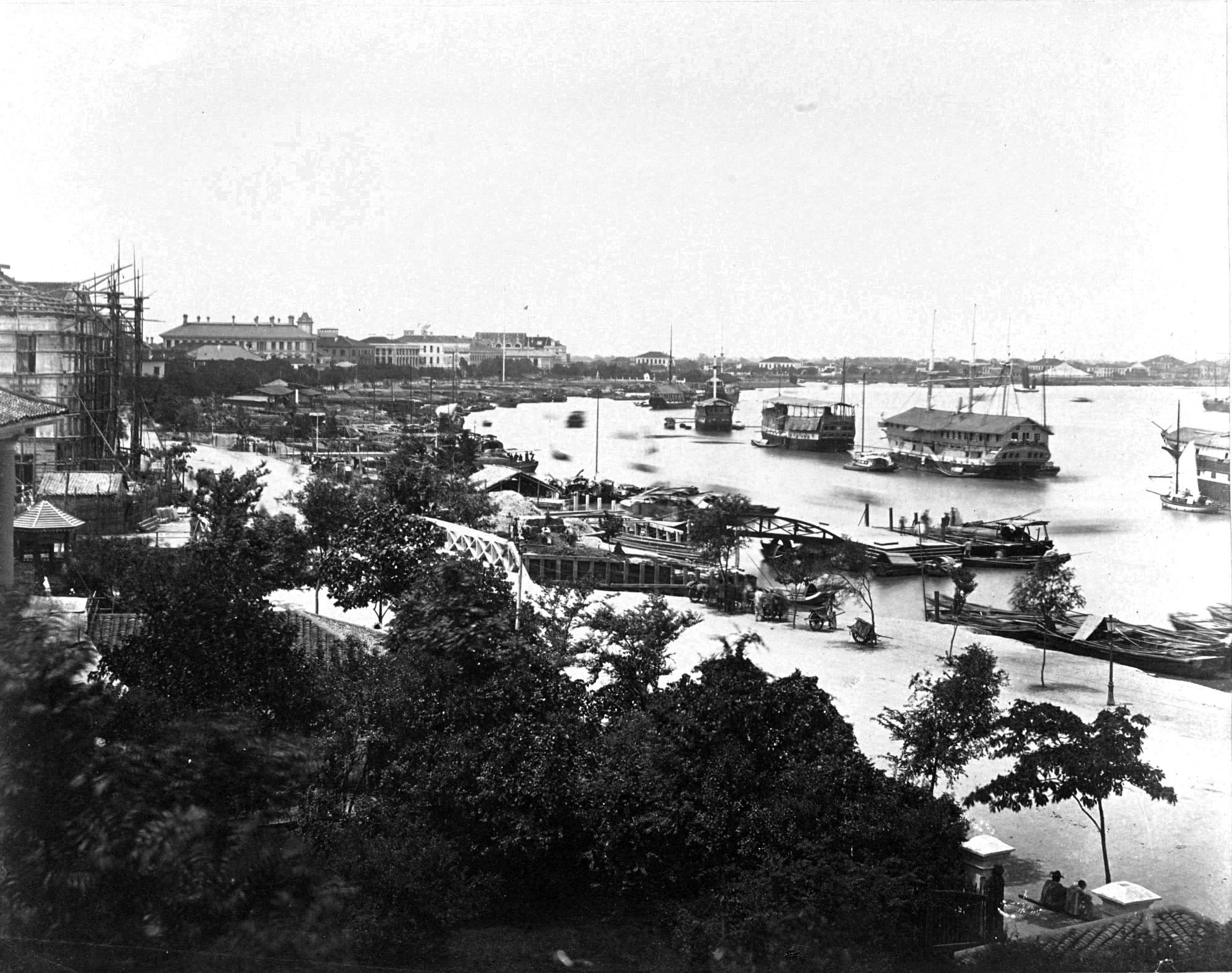 Photograph in From Afong, Photographer.